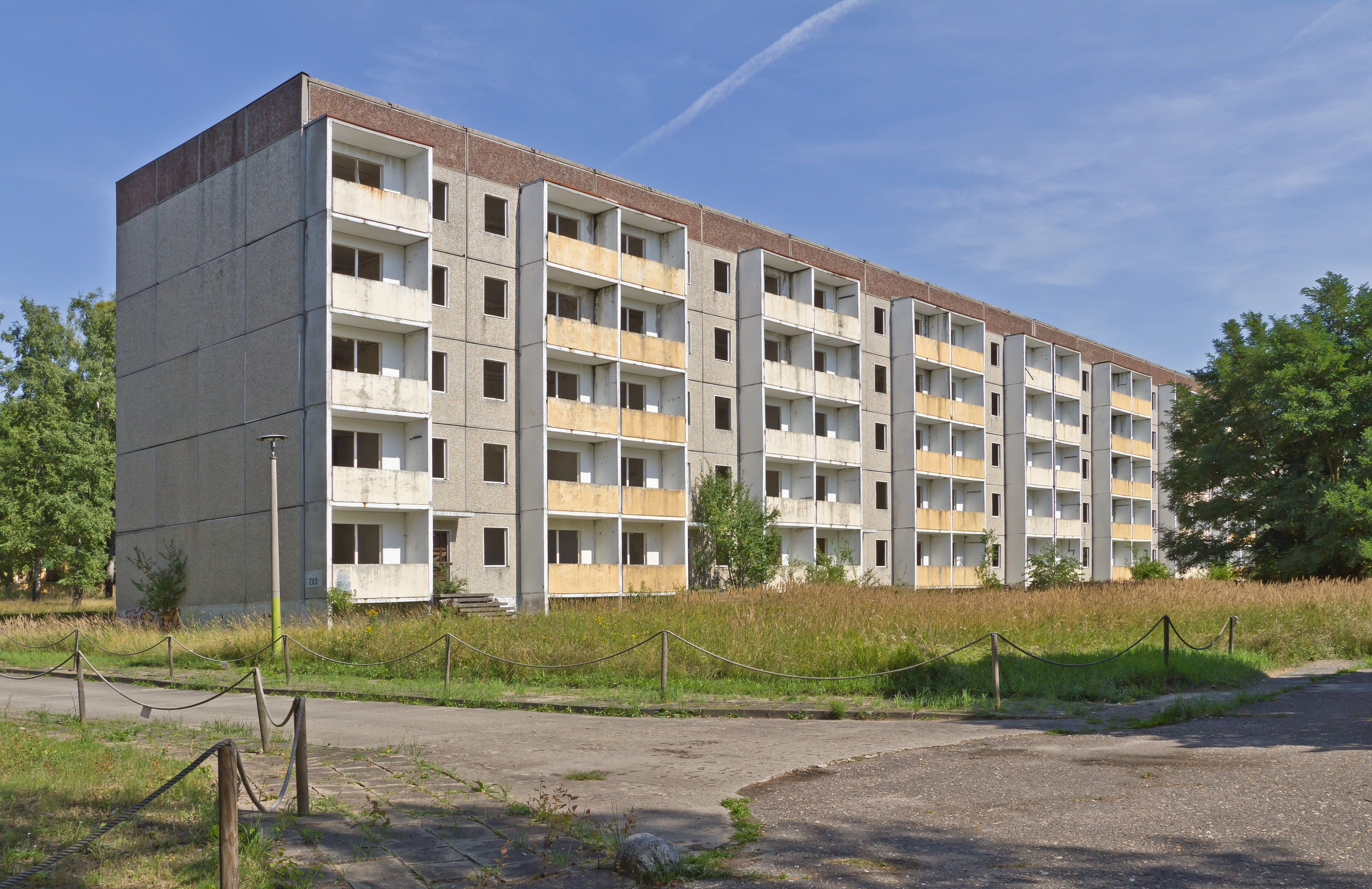 Former apartment building of the Soviet Army in the Berlin Olympic Village (built for the 1936 games) near Berlin, Germany